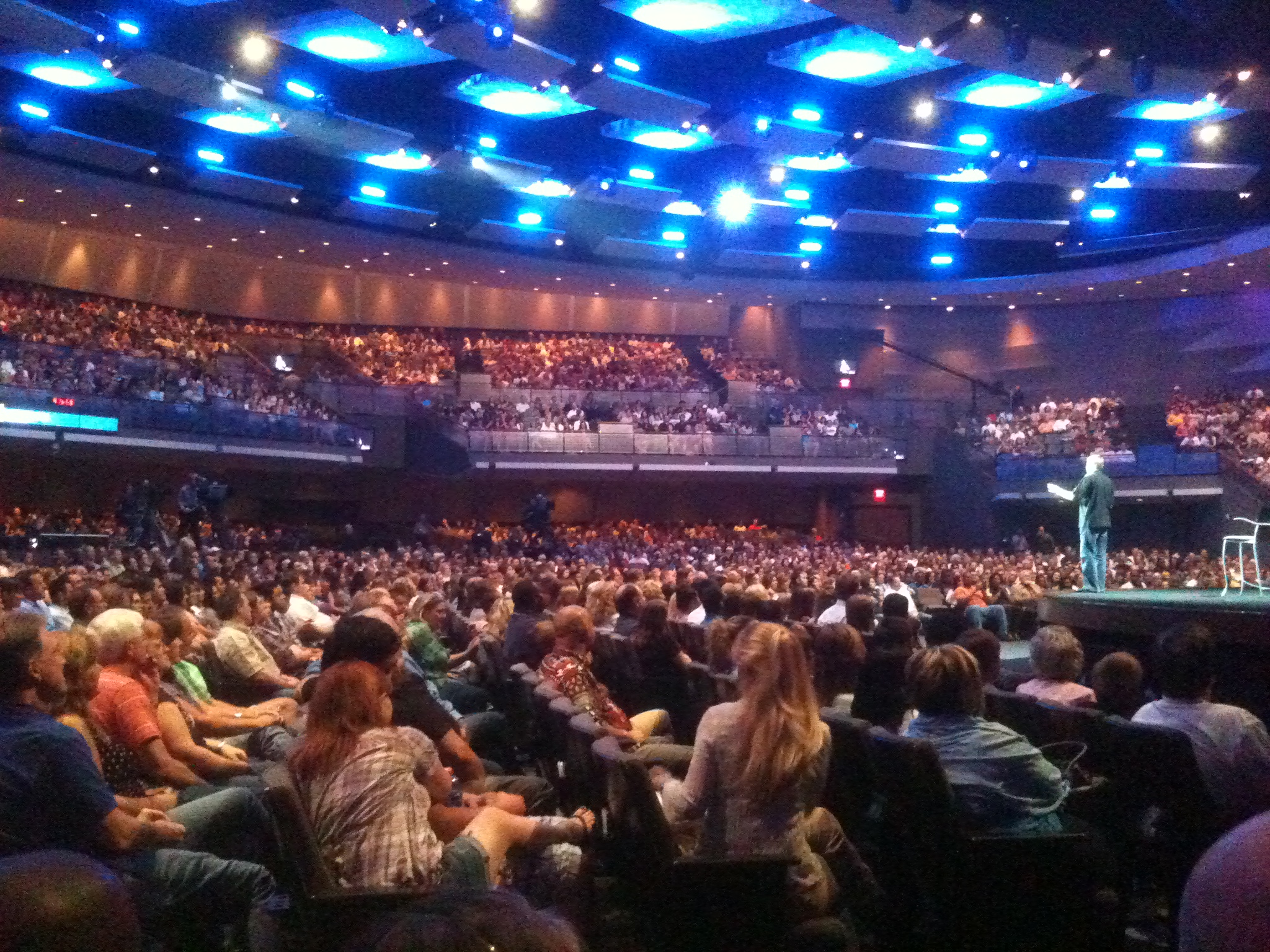 An event at Gateway Church's 114 Southlake Campus